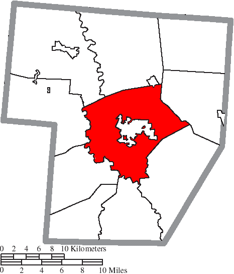 Map of the municipal and township boundaries of Fayette County, Ohio, United States, as of the 2000 census, with the location of Union Township highlighted. Township borders are shown only in unincorporated areas in order to differentiate incorporated and unincorporated areas more clearly.